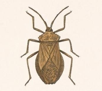 Biologia Centrali-Americana - Spartocera granulata Cut-out from original (Biologia Centrali-Americana (8271465025).jpg) shown below